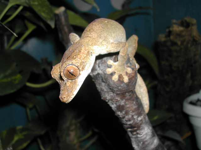 Uroplatus guentheri (male), a gecko